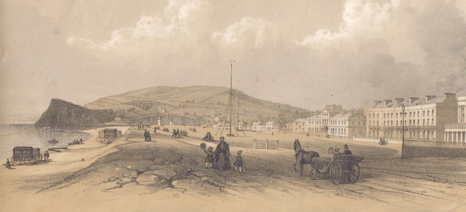 Teignmouth in South Devon, England. Circa 1840. The Ness at Shaldon is prominent.